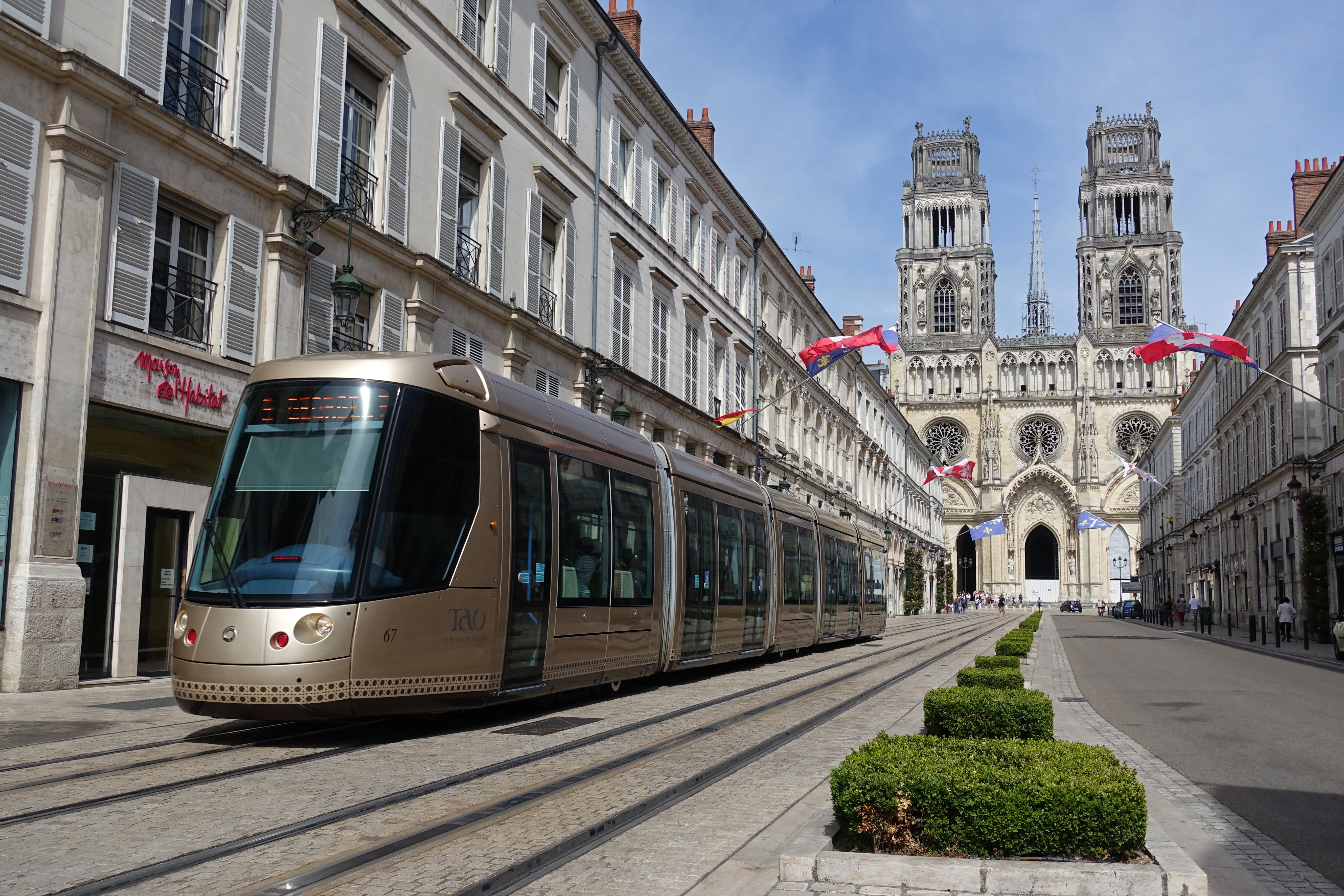 Orléans Tram line B in Rue Jeanne-d'Arc.